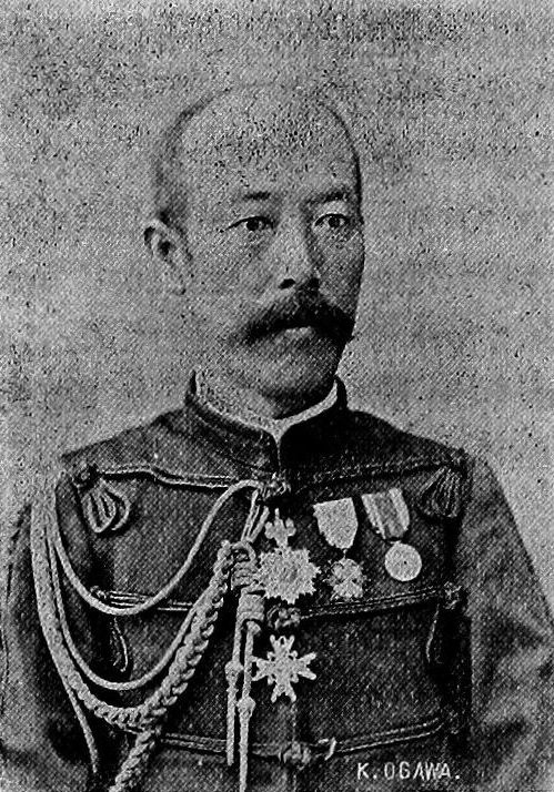 Colonel Uyeda Yutaku